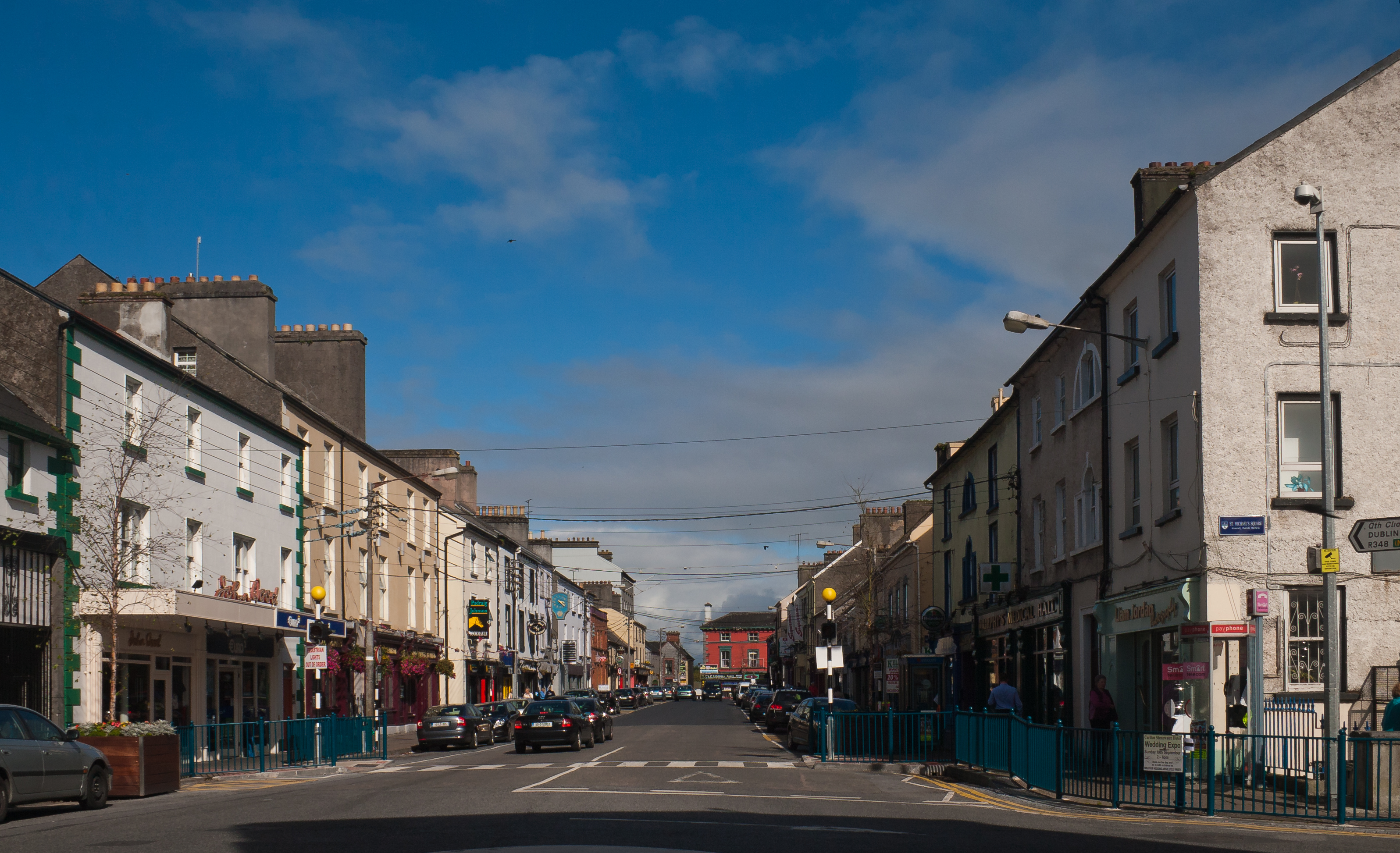 View of the Main Street, looking north-east.